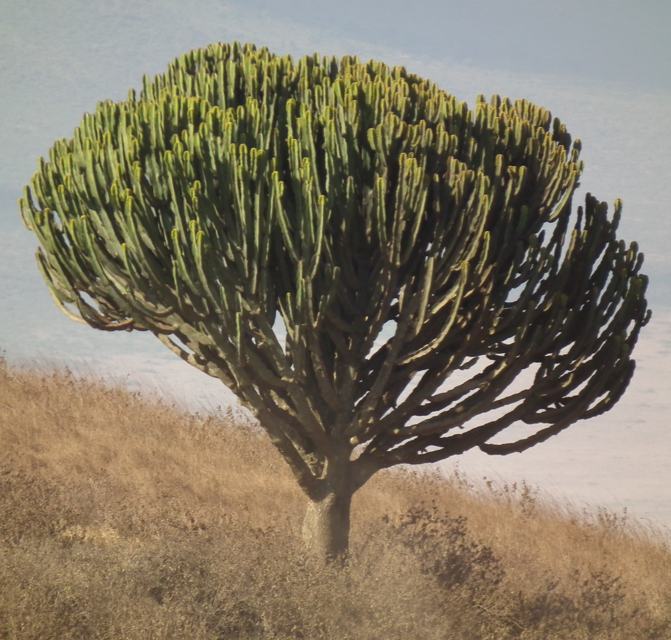 Candelabra tree (Euphorbia candelabrum), picture taken at, Northern Tanzania